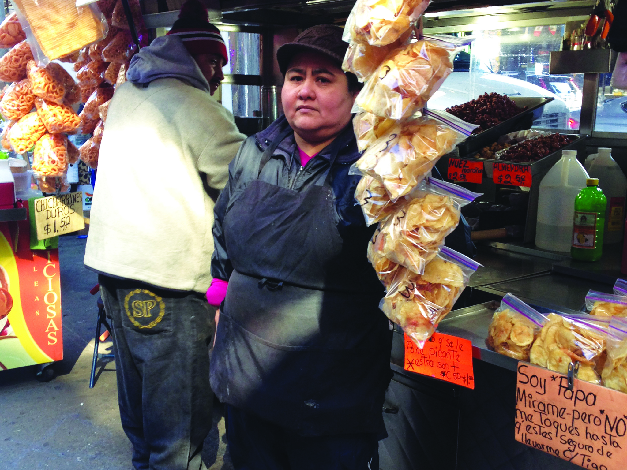 This lady sells fresh cut up fruits